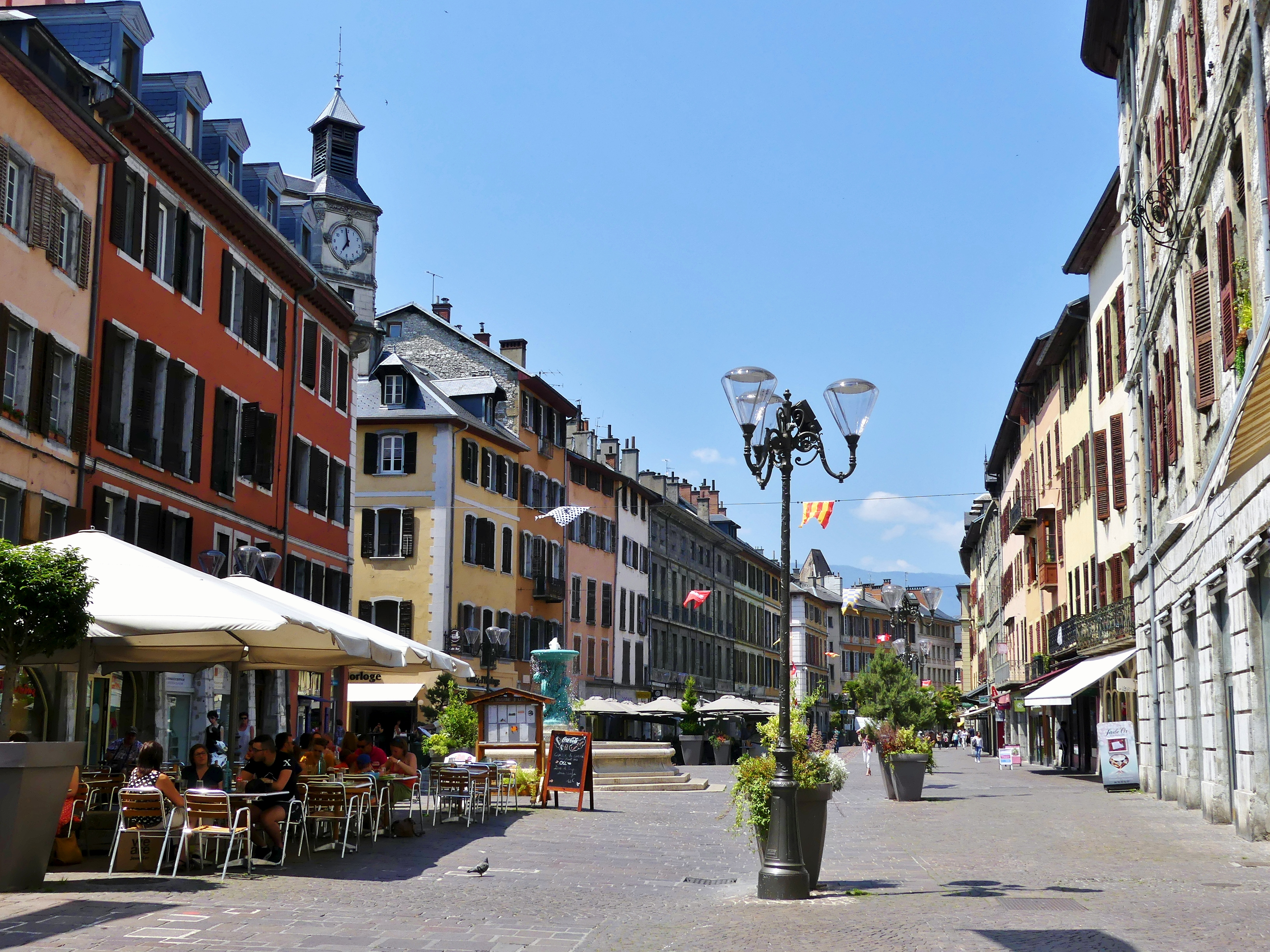 Sight, in spring, of the Place Saint-Léger place in Chambéry, Savoie, France.